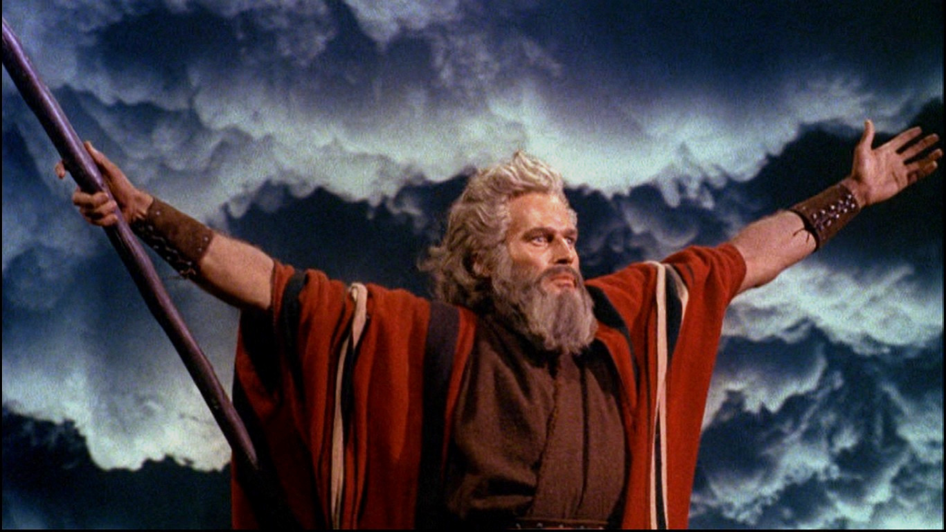 Cropped screenshot of Charlton Heston from the trailer for the film The Ten Commandments.